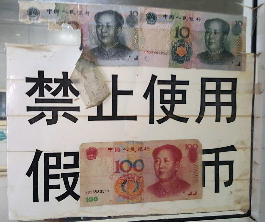 Anti counterfeit money sign in a noodle shop in the city of Kunming (昆明), Yunnan (云南), China, November 2016.